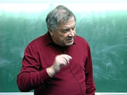 Photo of Rouben V. Ambartzumian